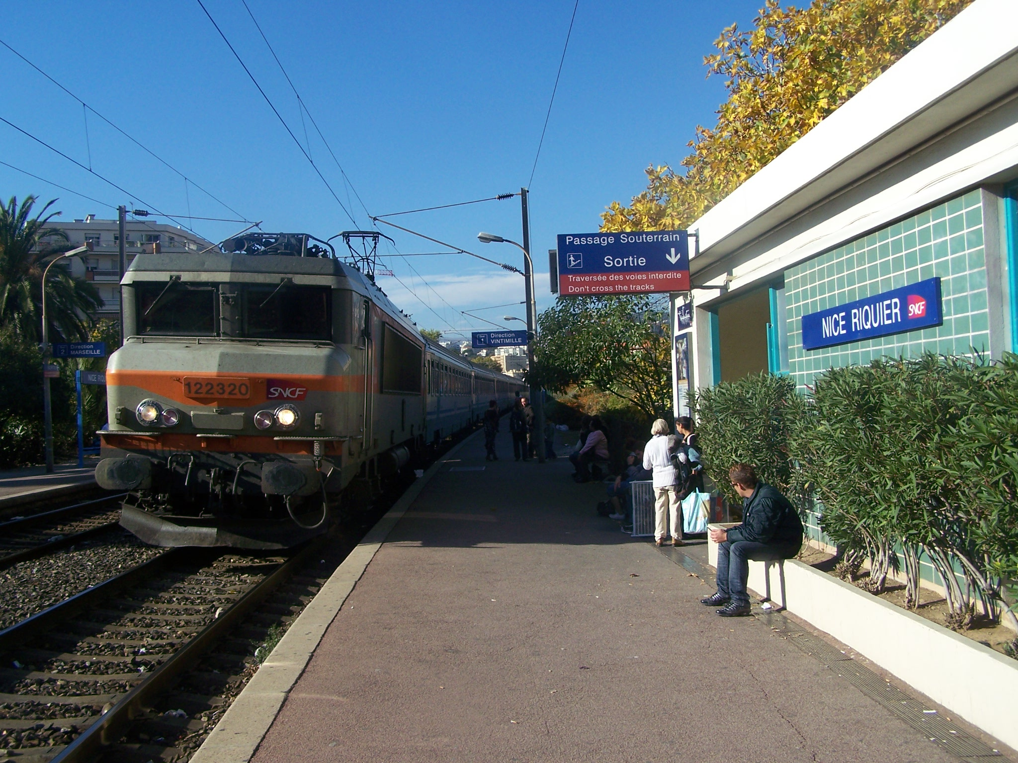 French regional train from Marseille to Ventimiglia (Italy) is passing (no stop) at Nice-Riquier station, in the Alpes-Maritimes.